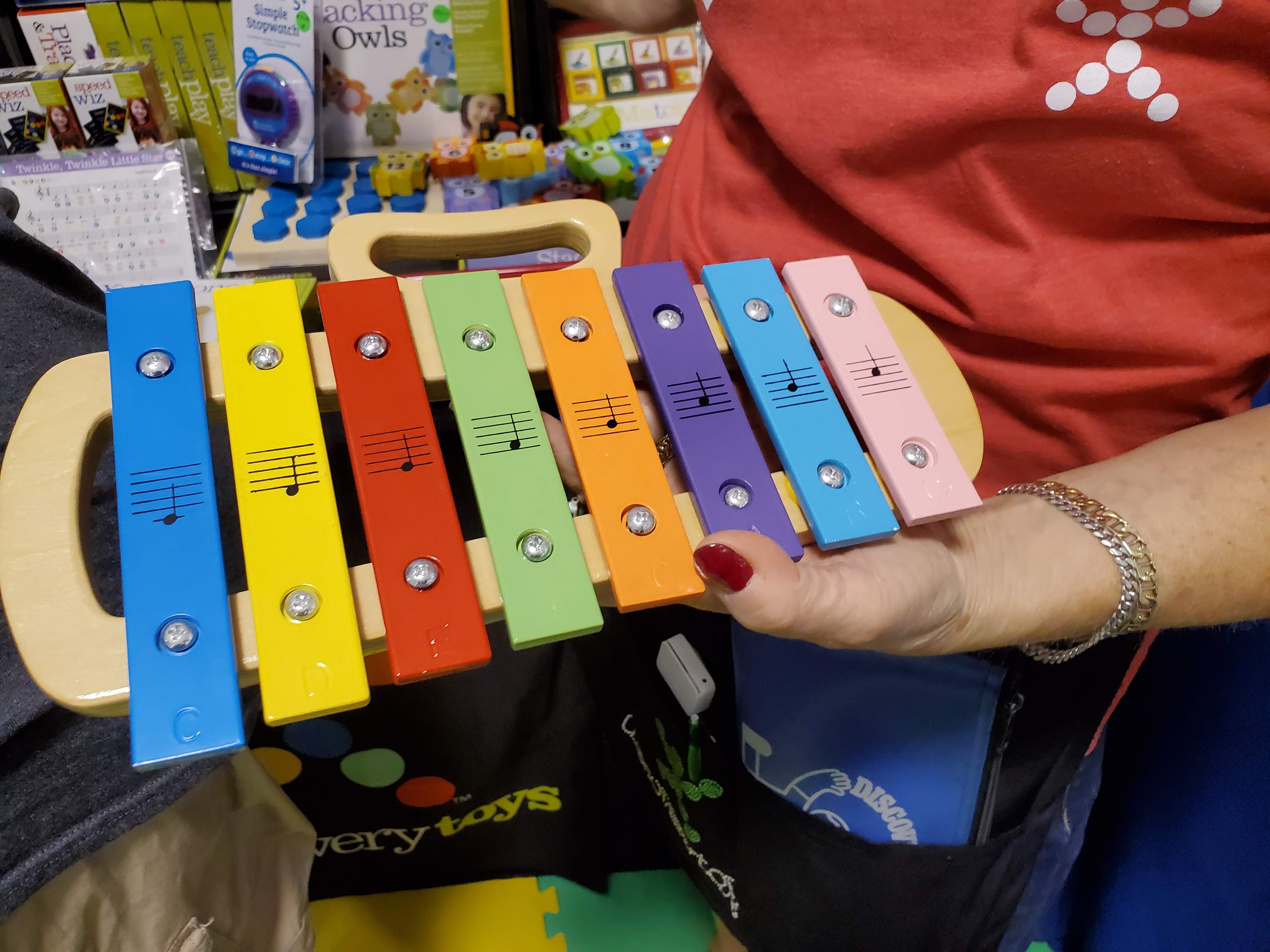 Discovery Toys has the absolute neatest toys for little ones. This tops the list of must haves. It sounds wonderful and has song cards. Little children can even learn to write music on blank cards! Wednesday at the Iowa State Fair. Weather was in the high 70s. Can't beat that. Some sunshine, some clouds. Everyone seemed to be having a wonderful time!